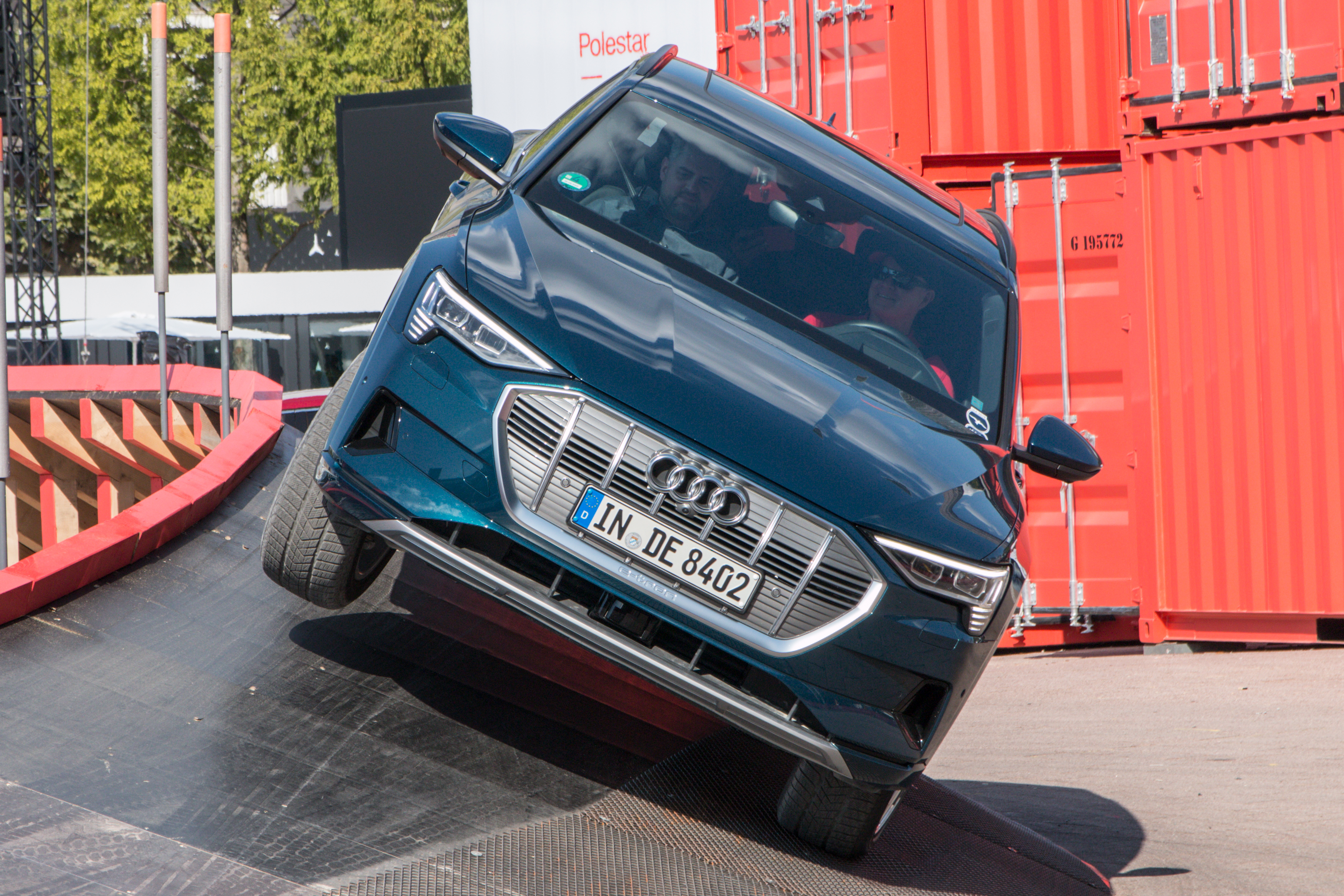 Audi e-tron 55 quattro